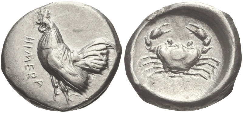 Himera, 480-470 BC. Silver Didrachm (20mm, 8.37 g). Cock standing left / Crab within shallow incuse circle.